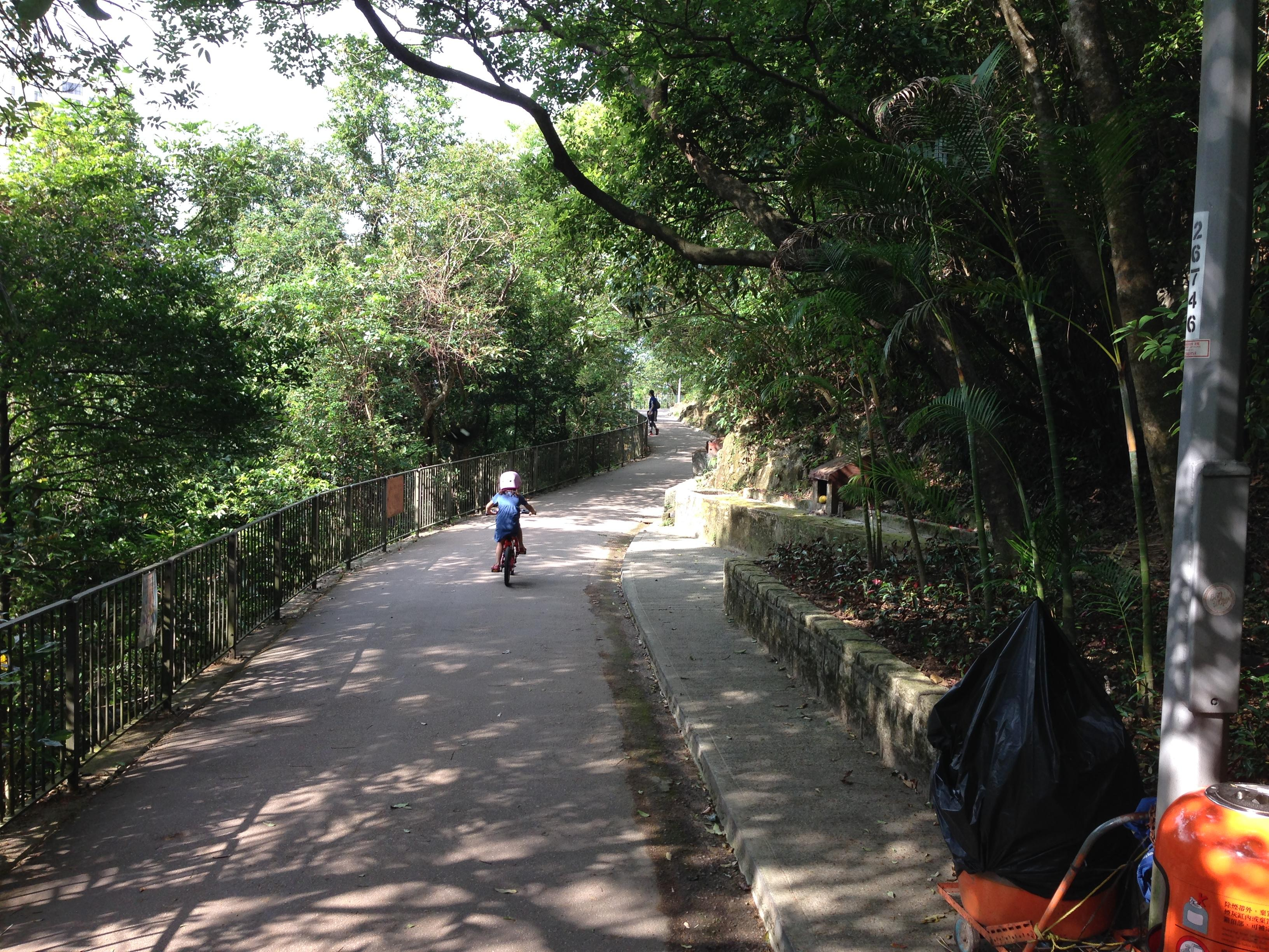 Bowen Road Fitness Trail